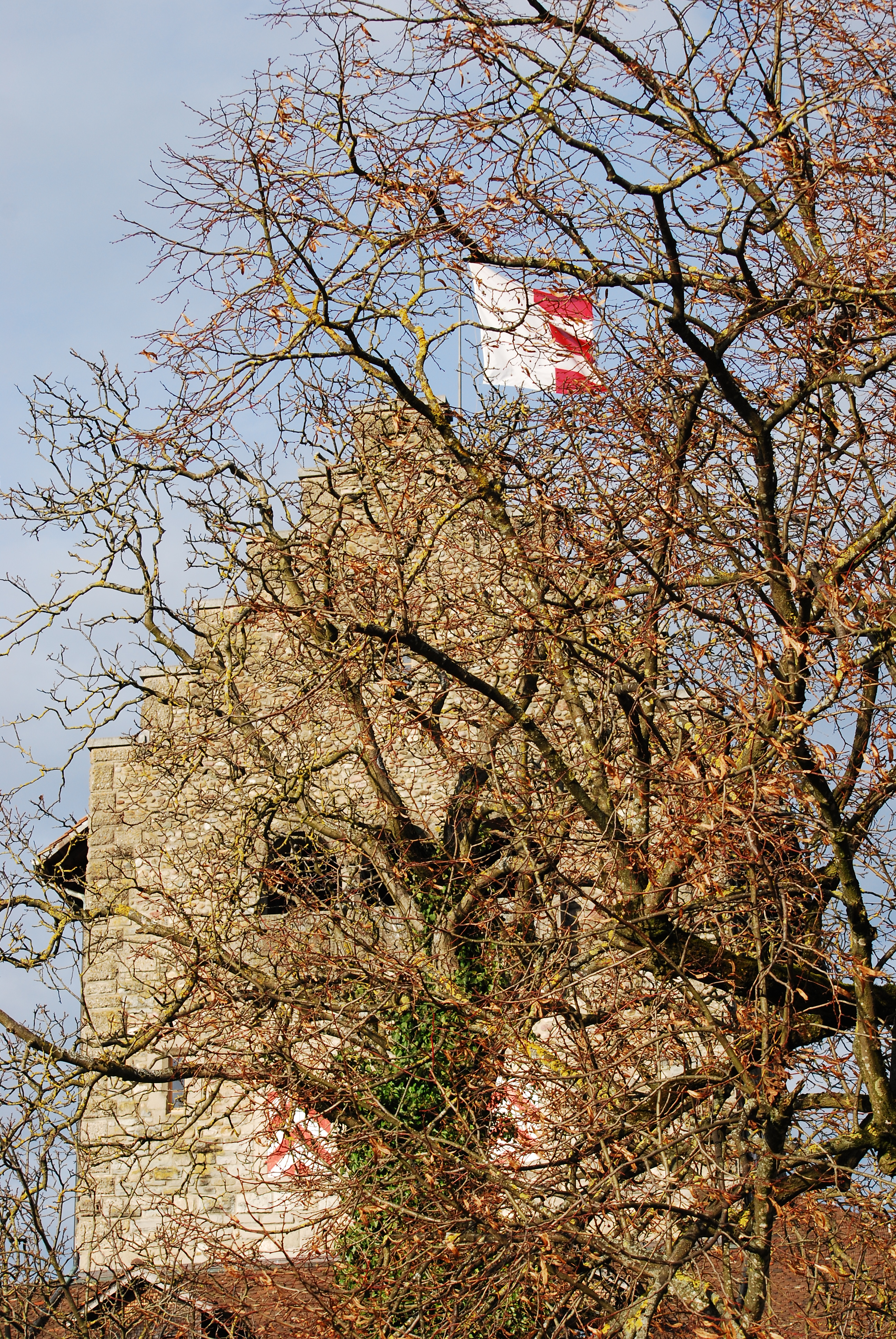 Castle of Uster, city of Uster, canton of Zürich, Switzerland